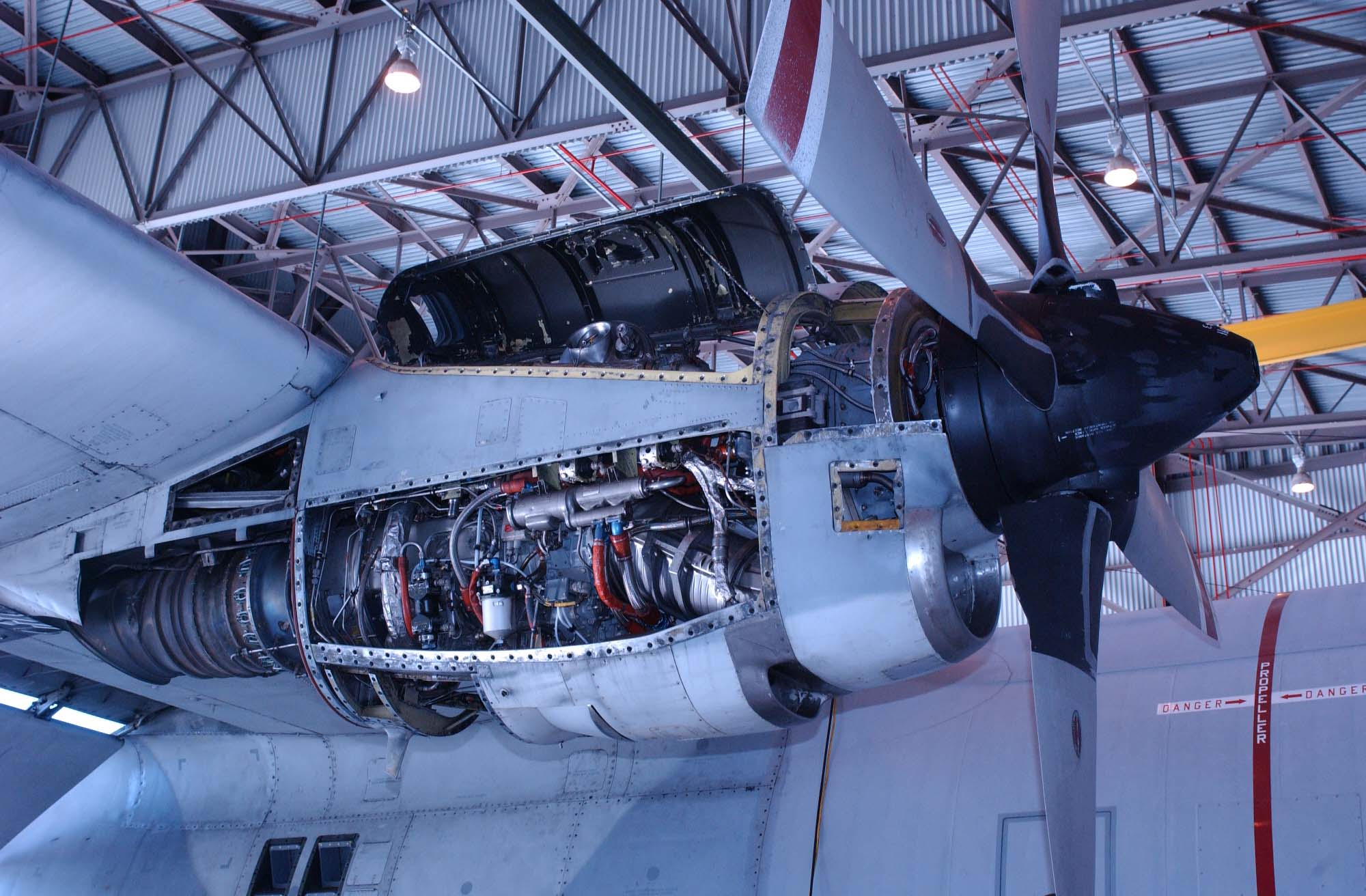 Although hard to find or see even with the engine compartment panels removed, the KC-130 engines are protected from the dangers of overheating and fires with early warning detection and fire suppression systems. Photo by Cpl. Paul Leicht